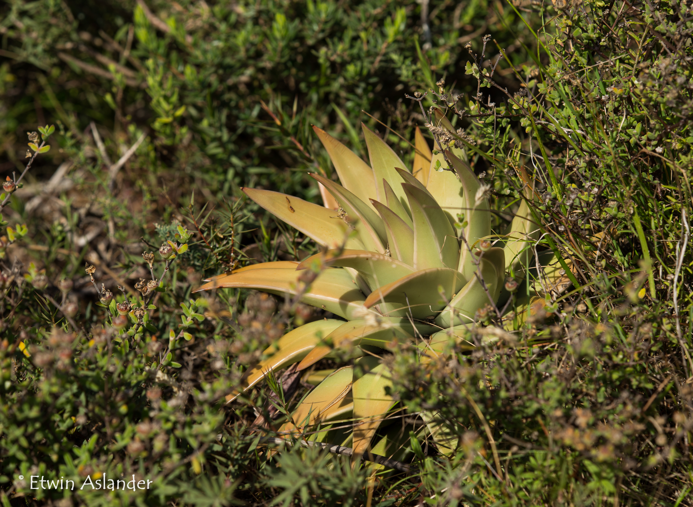 Haworthia marginata photographed in habitat near the town of Heidelberg, Overberg region, South Africa.